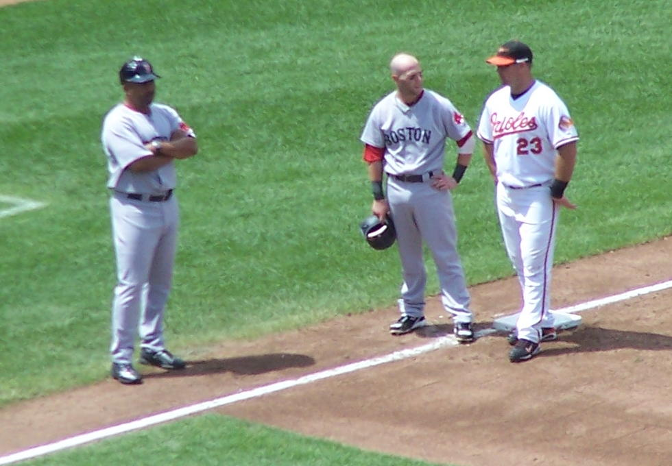 DeMarlo Hale, Dustin Pedroia, and Ty Wigginton converse during a pitching change at Camden Yards.